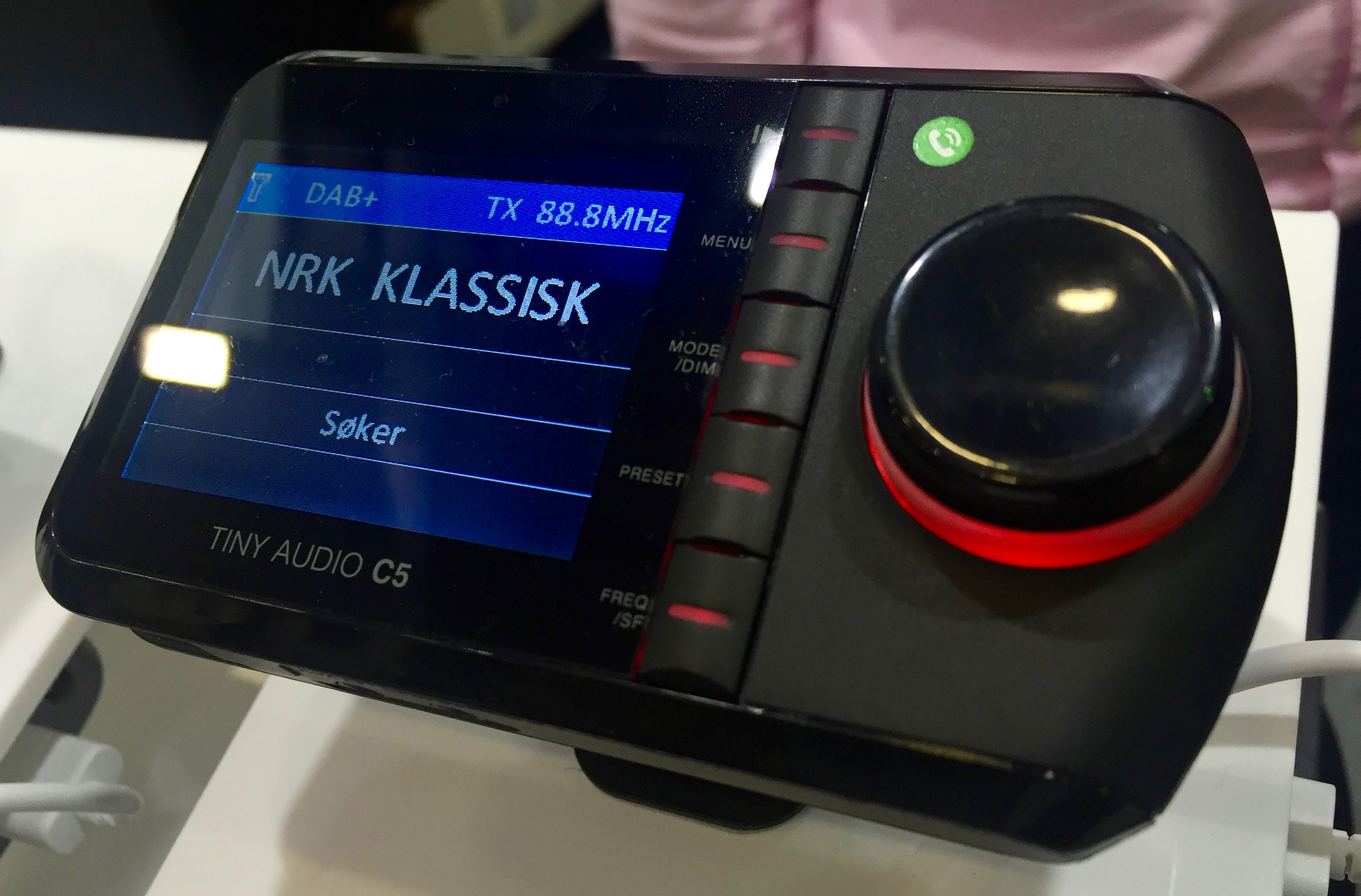 DAB radio adapter for cars